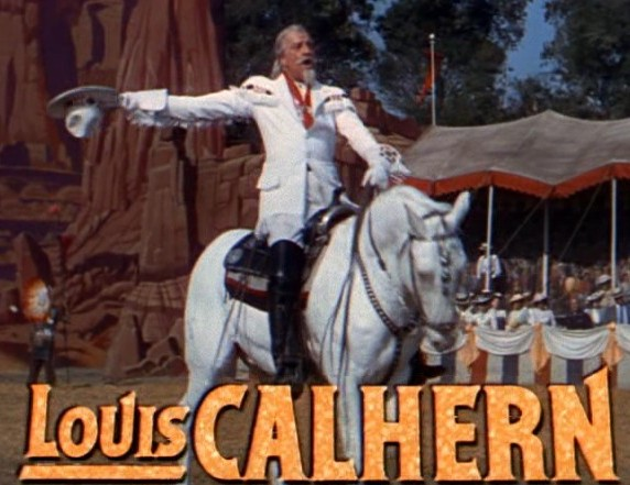 Cropped screenshot of Louis Calhern from the trailer for the film Annie Get Your Gun